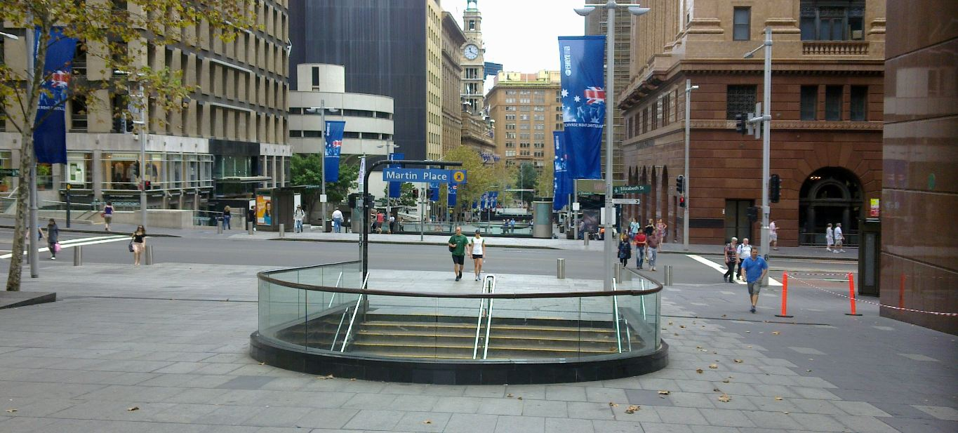 Martin Place railway station